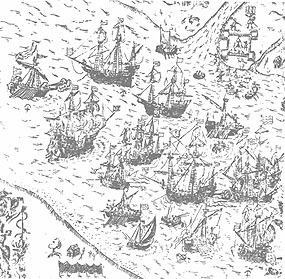 Swedish navy / battle of Riga 1621